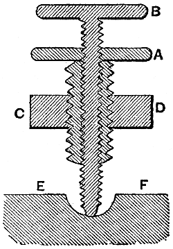 Differential foot screws used to level astronomical instruments. "The principle of the differential screw may be employed to effect very fine adjustments in place of using a very fine thread, which would soon wear out or wear loose. Thus in Fig. 417 is shown the differential foot screws employed to level astronomical instruments. c d is a foot of the instrument to be leveled. It is threaded to receive screw a, which is in turn threaded to receive the screw b, whose foot rests in the recess or cup in e f. Suppose the pitch of screw a is 30 per inch, and that of b is 40, and we have as follows. If a and b are turned together the foot c d is moved the amount due to the pitch of a. If b is turned within a the foot is moved the amount due to the pitch of b. If a is turned the friction of the foot of b will hold b stationary, and the motion of c d will equal the difference between the pitches of the threads of a and b. Thus one revolution of a forward causes it to descend through c d 1⁄30 inch (its pitch), tending to raise c d 1⁄30 inch. But while doing this it has screwed down upon the thread of b 1⁄40 inch (the pitch of b) and this tends to lower c d, hence c d is moved 1⁄120 inch, because 1⁄30 - 1⁄40 = 1⁄120."